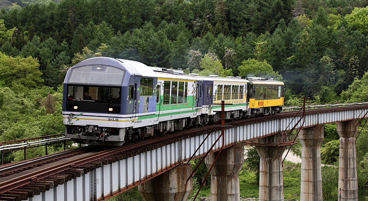 Aizu Railway Oza-Toro-Tembo Train (Type AT-400 + AT-350 + AT-100 DMU)